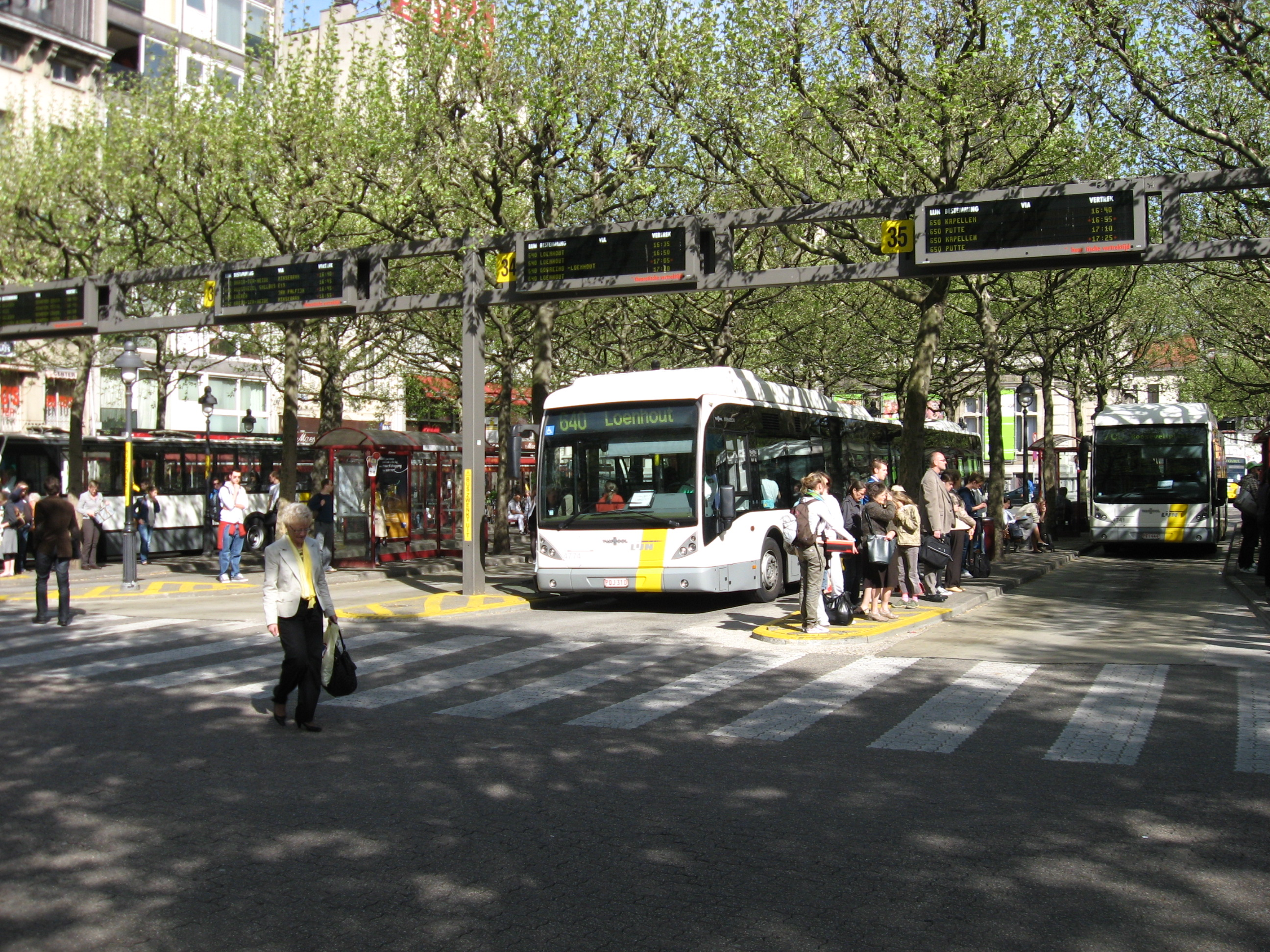 Rooseveltplaats is the biggest busstation in Belgium. Al regional busses from the province of Antwerp converge here. The place is subdivided in four sections. This section is for the lines to the North and from here ran the last vicinal tramlines in Antwerp.